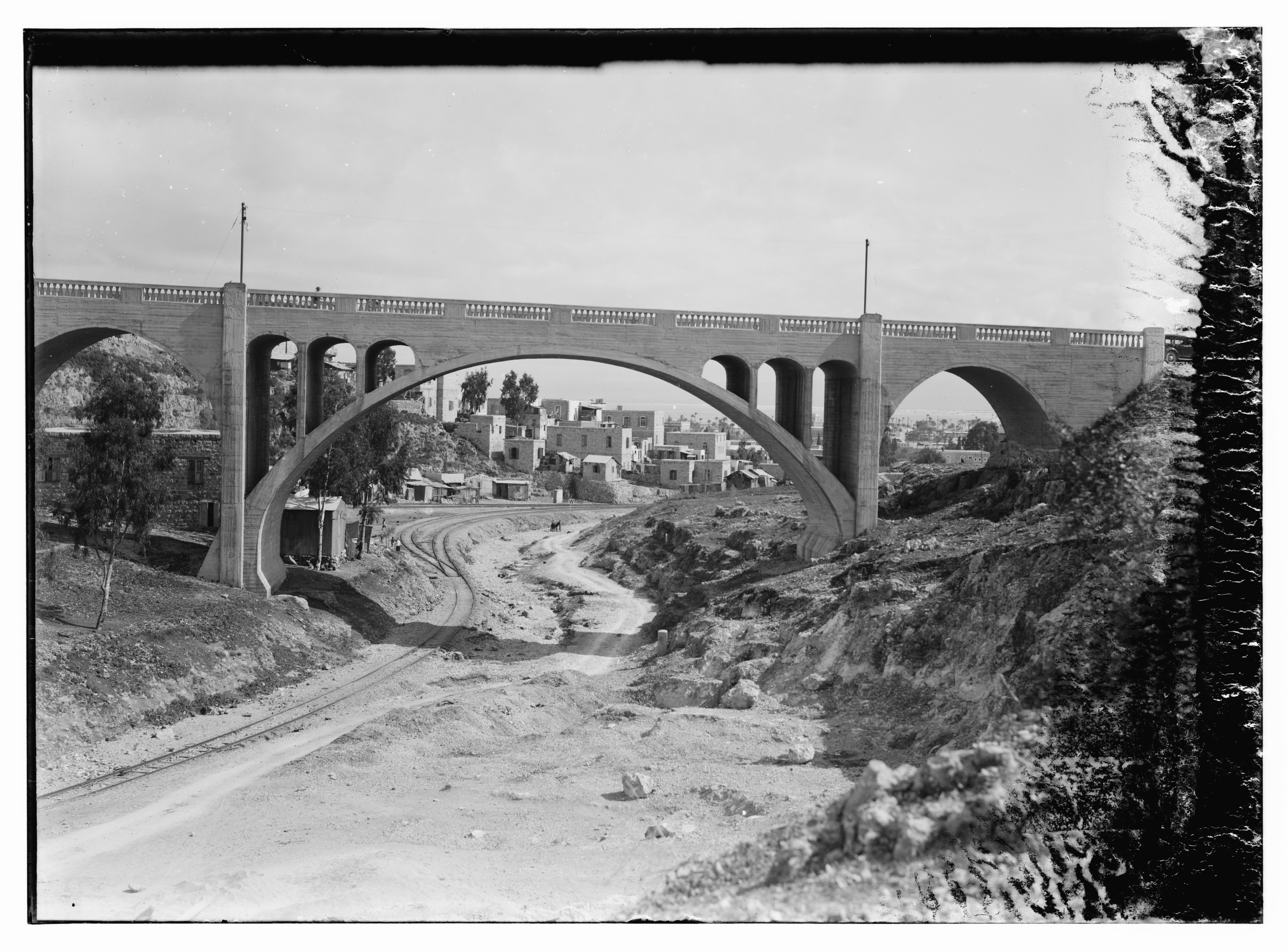 Title: Haifa, 1927 Abstract/medium: G. Eric and Edith Matson Photograph Collection Physical description: 1 negative